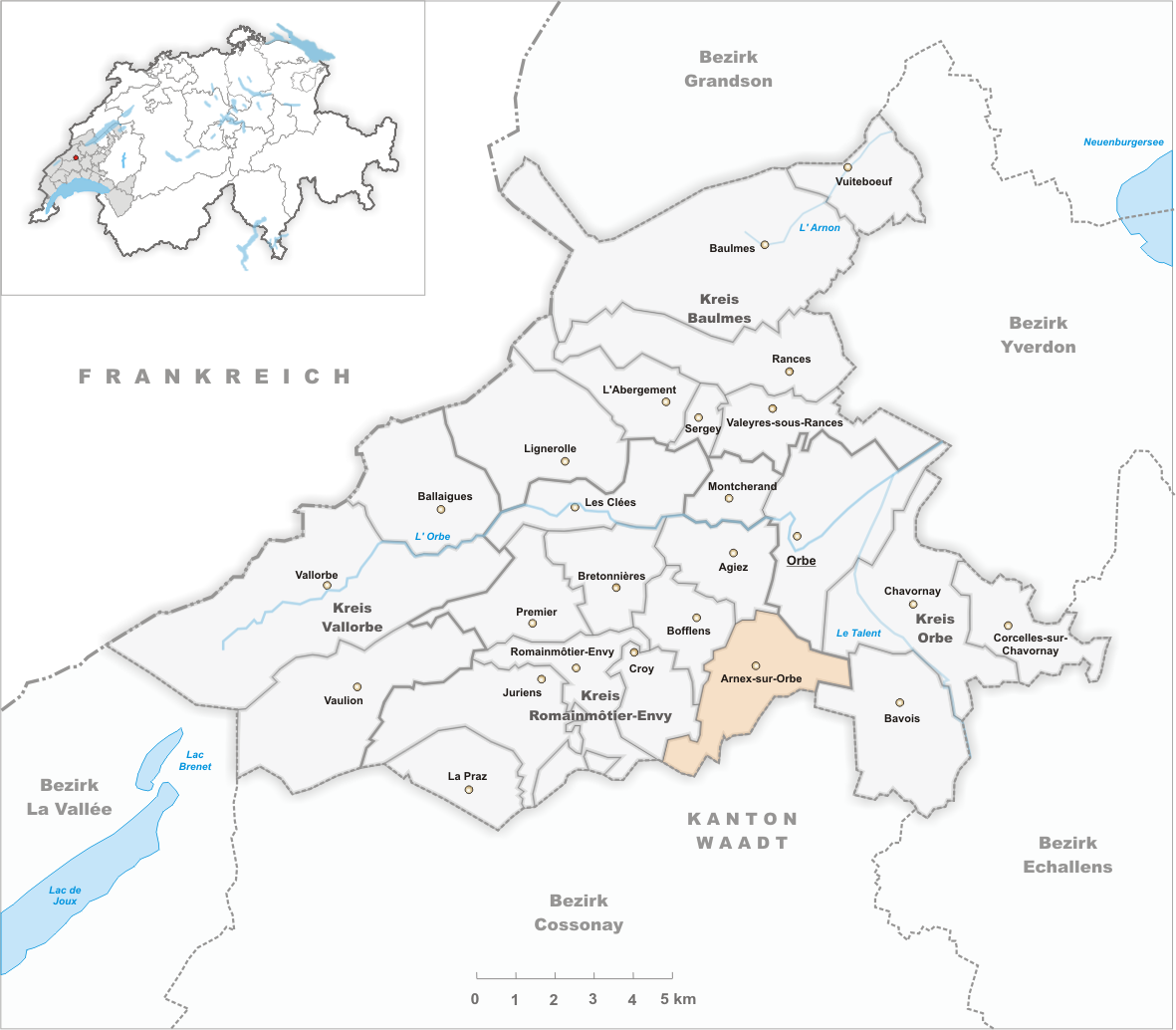 Municipality Arnex-sur-Orbe